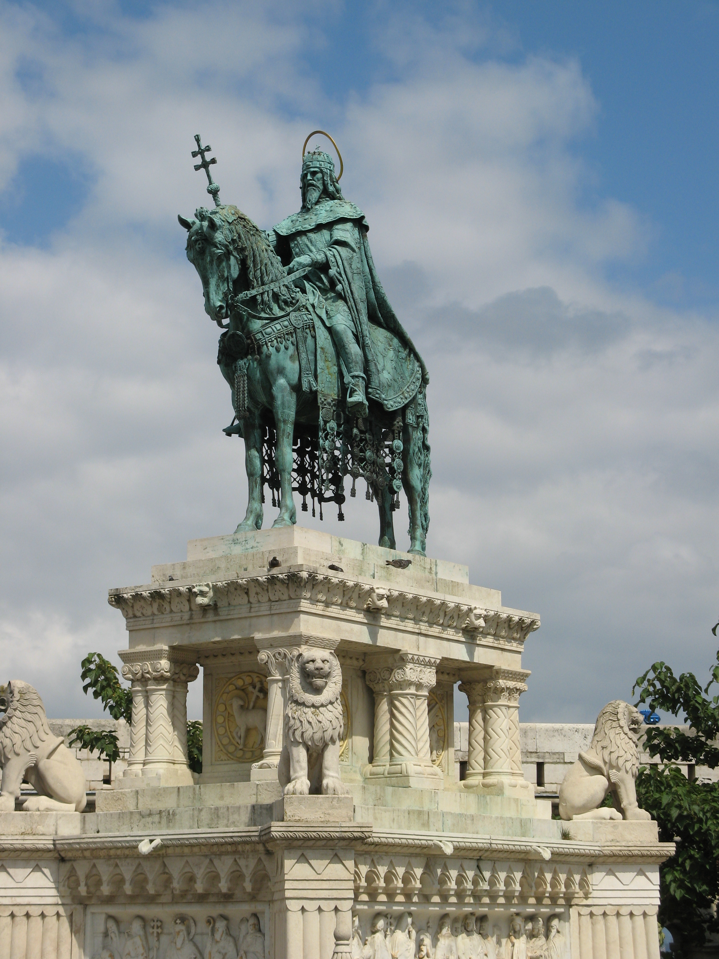 A monument to Saint Stephen I in Budapest, Hungary